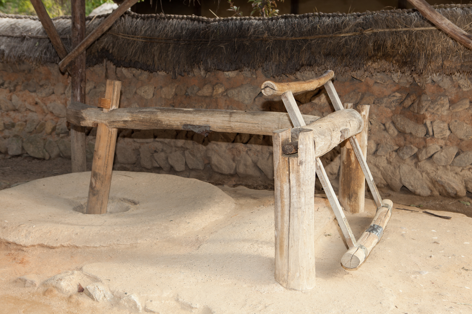 Banga (gristmill)